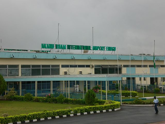 Enugu Airport Terminal (Airside)